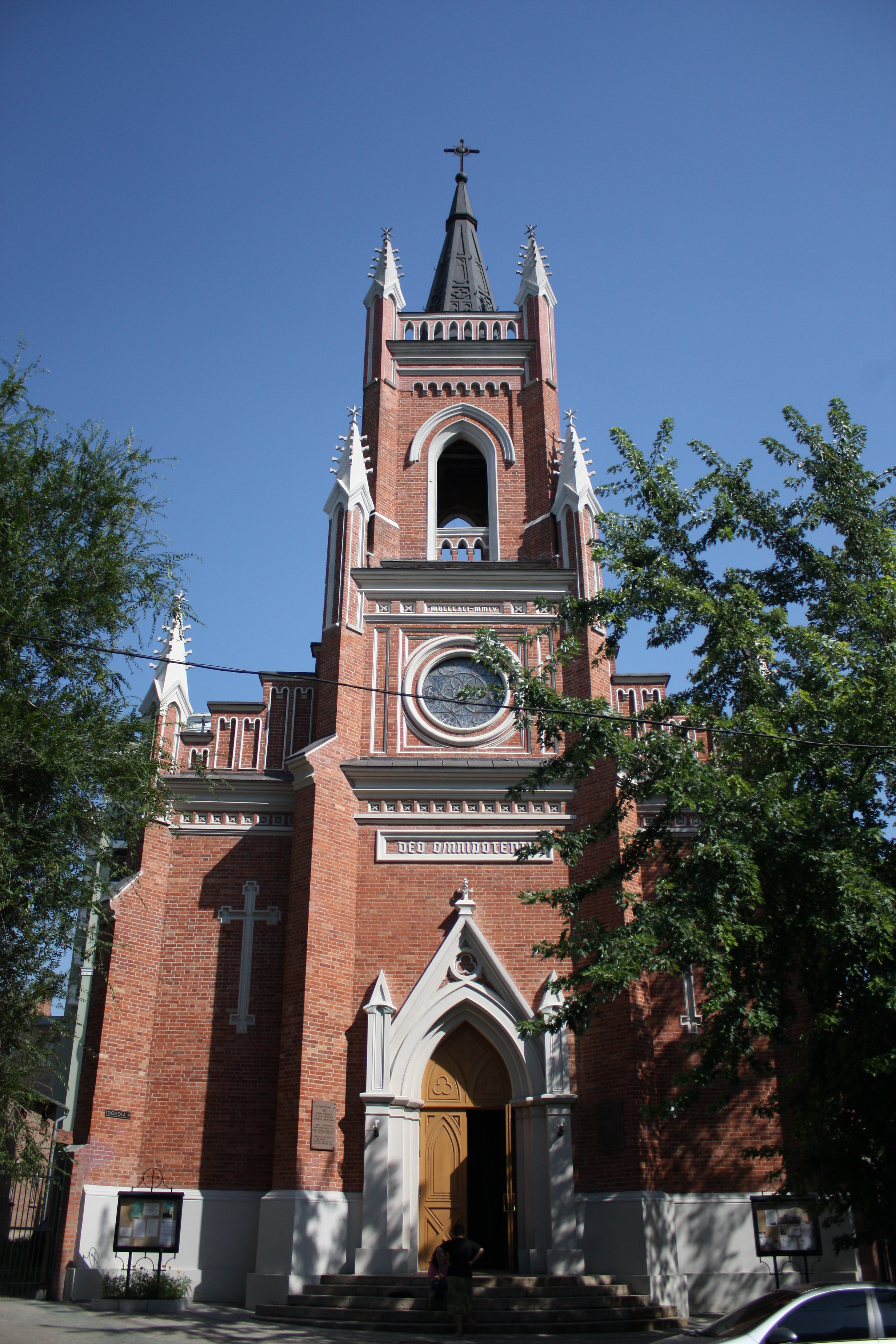 A view on the Kharkov Cathedral